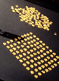 Clothe decoration. Tillia Tepe. Musee Guimet.